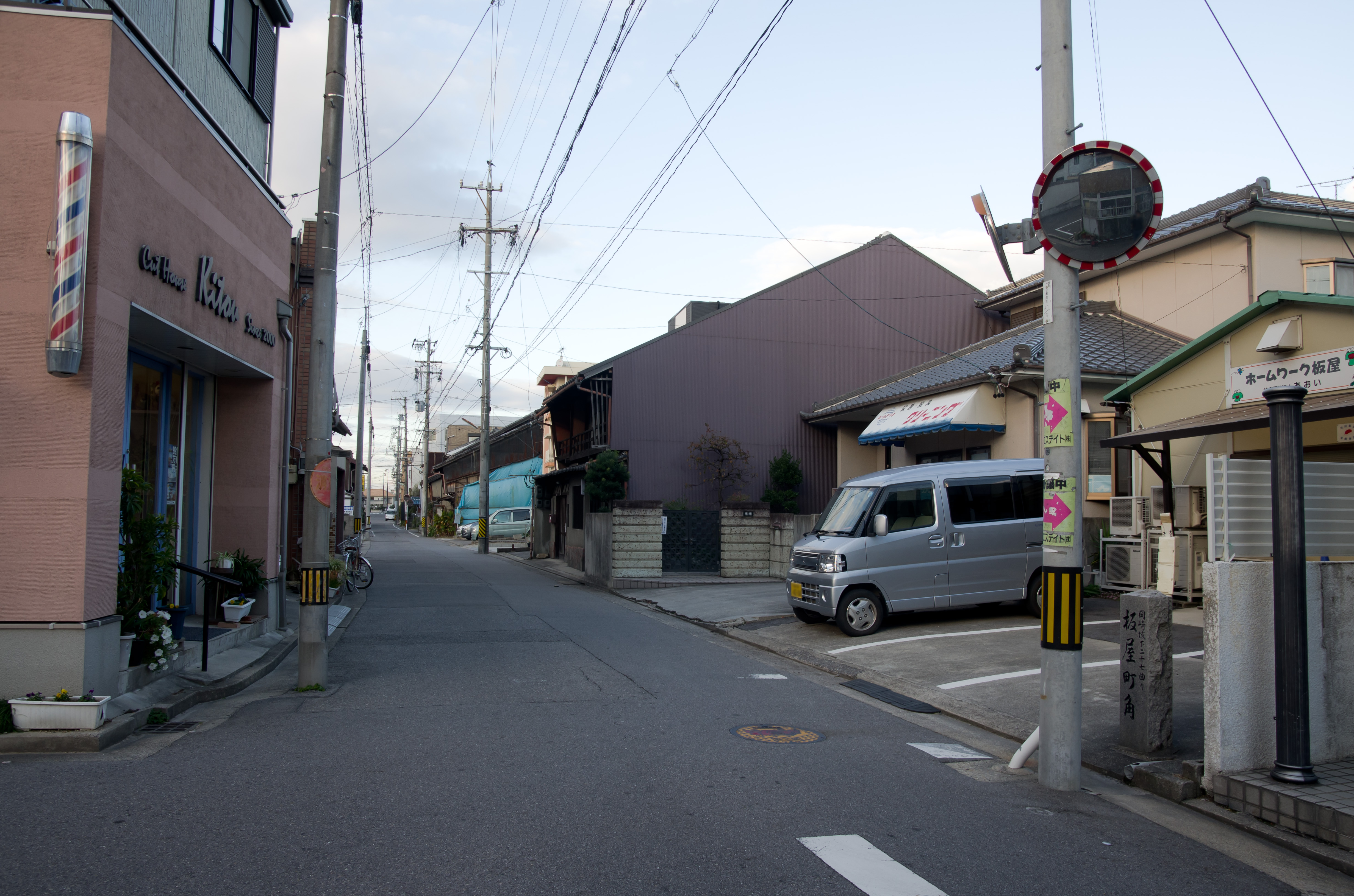 Itaya-hondori Ave. in Okazaki, Aichi, Japan